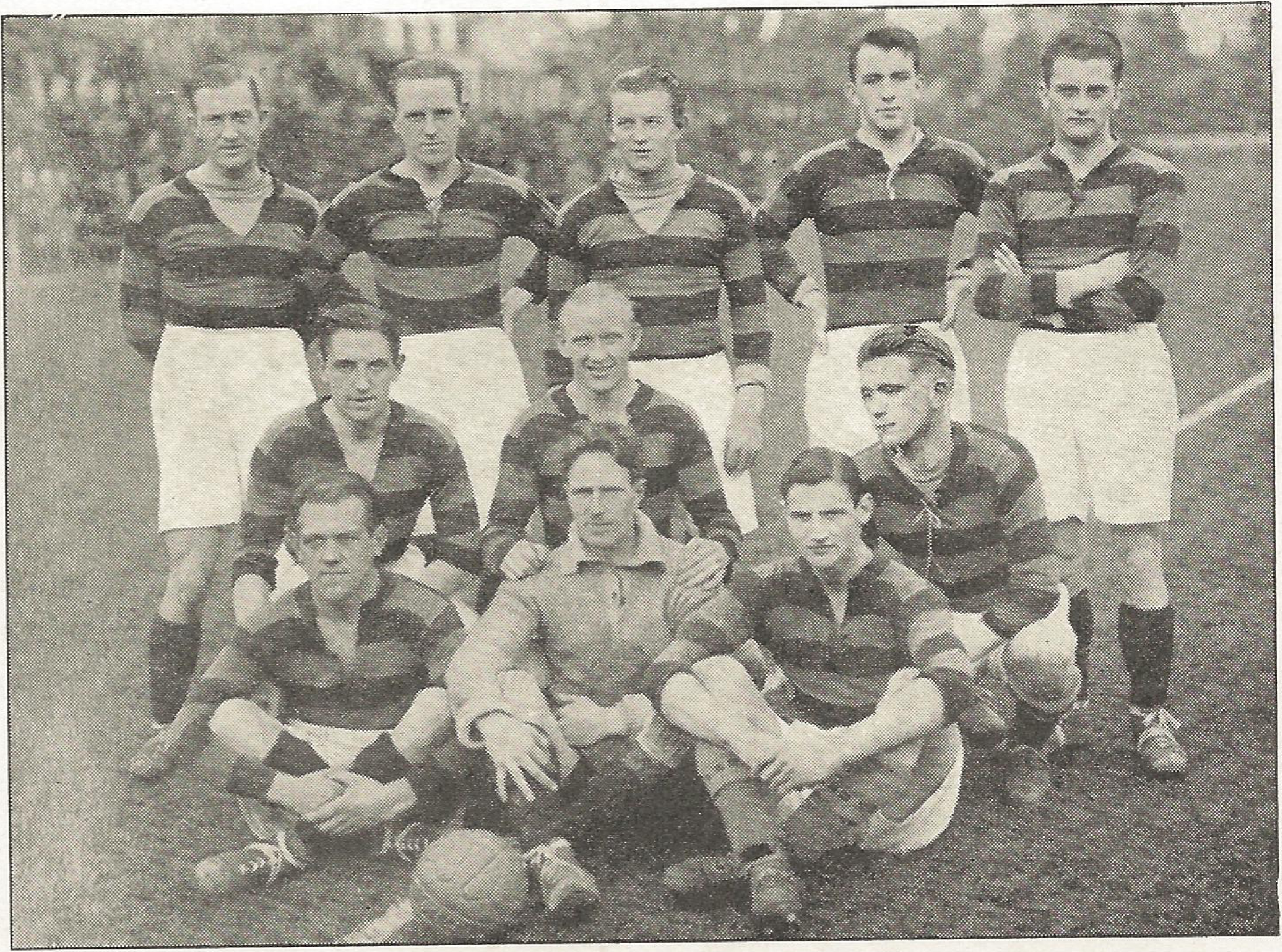 Team line-up of Boldklubben Frem — Group photo of the team members participating in 1927 KBUs Pokalturnering (organised by Copenhagen Football Association).